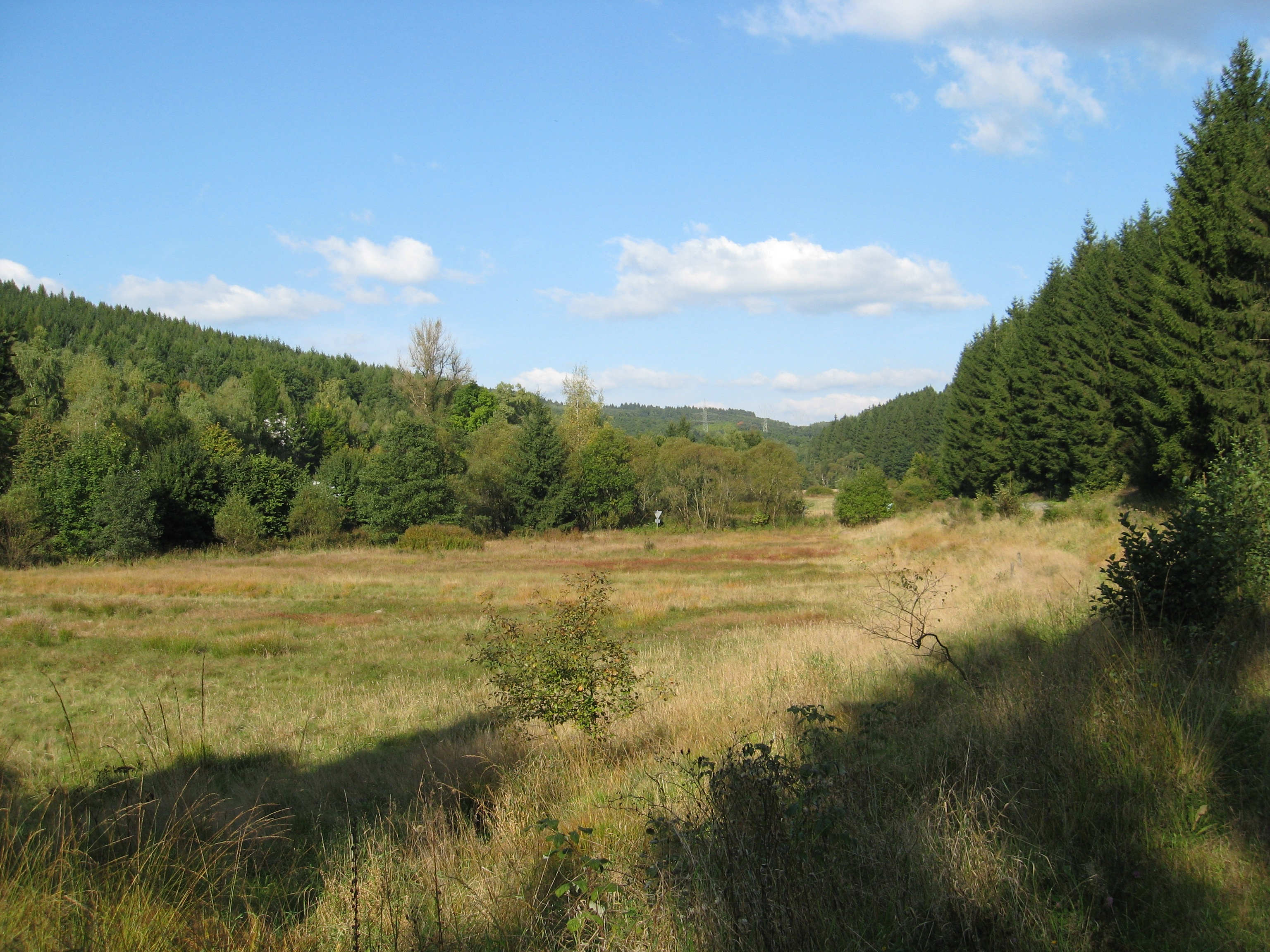 The valley of Wildebach between Wilden and Salchendorf.